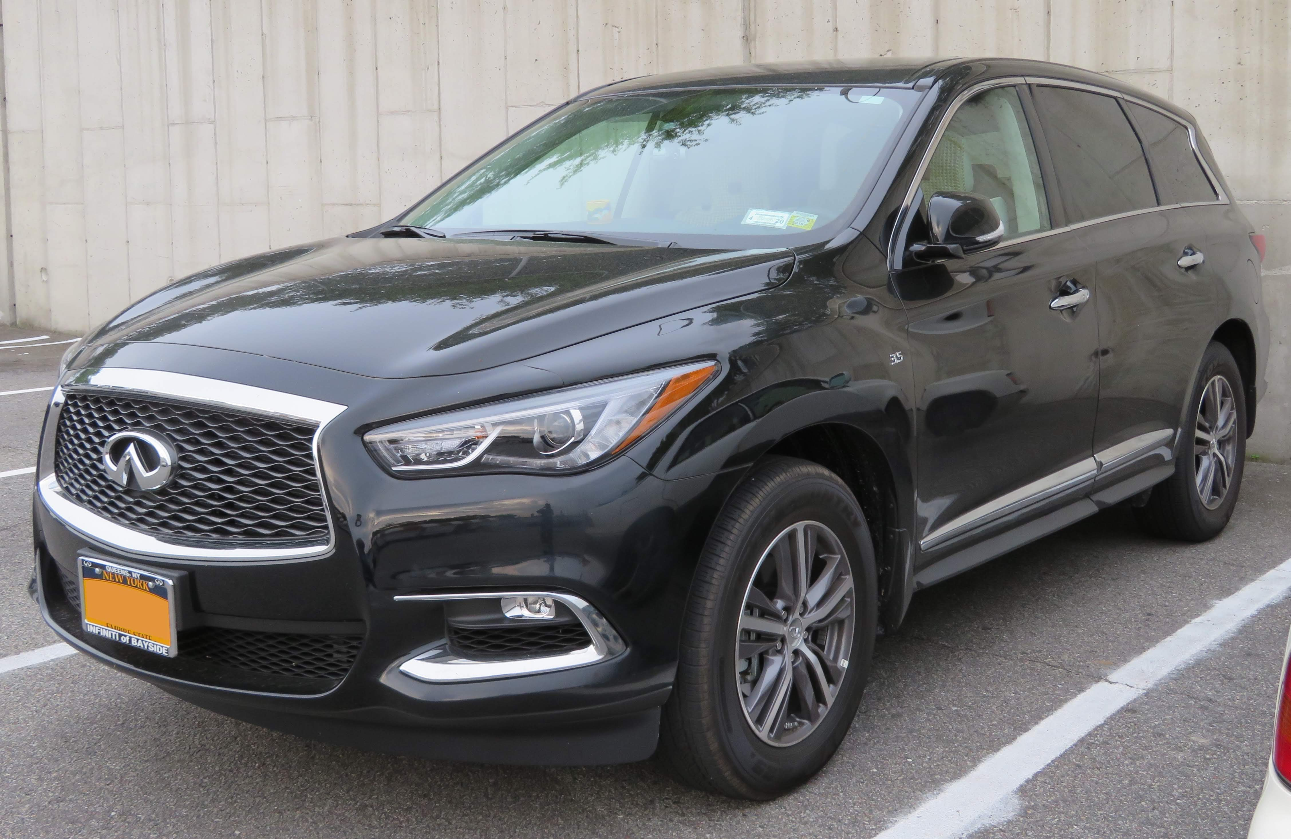 Photographed in Queens, New York